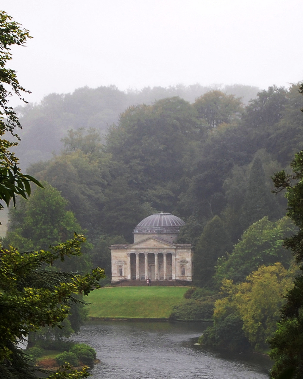 Stourhead